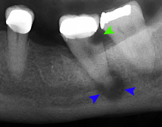 X-ray of deep dental decay (green arrow) with chronic periapical abscess (blue arrows)